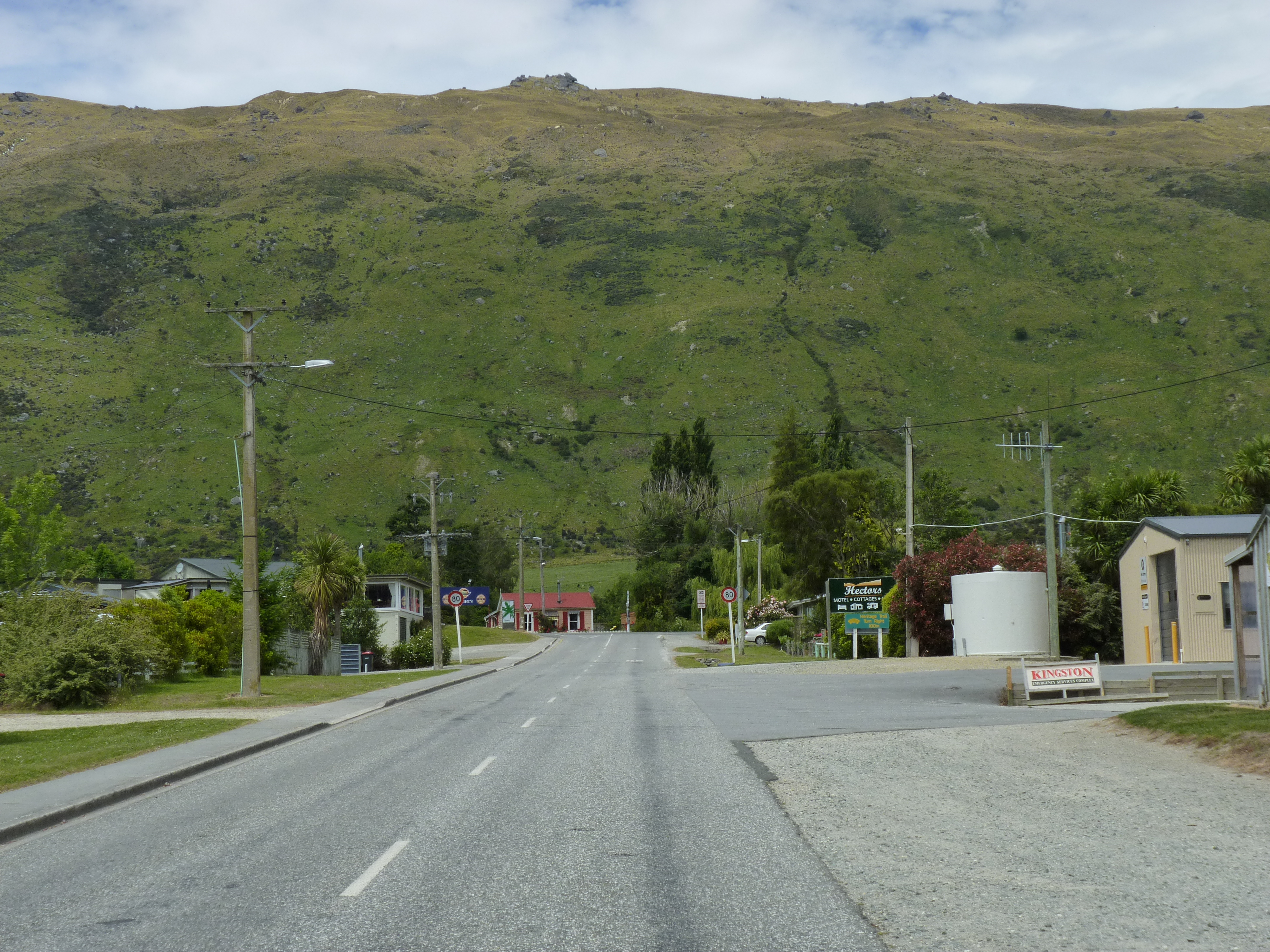 Kingston, Queenstown-Lakes District, New Zealand